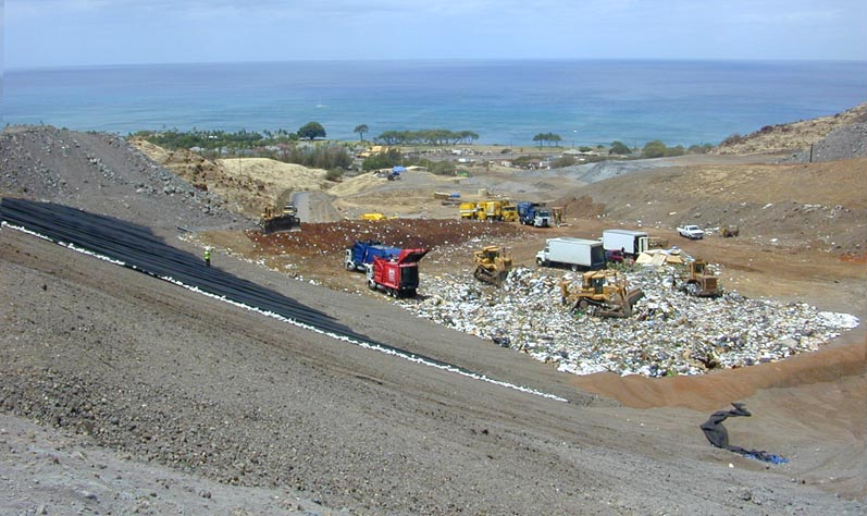 Modern landfill operation at Waimanalo Gulch, the municipal sanitary landfill for the City & County of Honolulu.